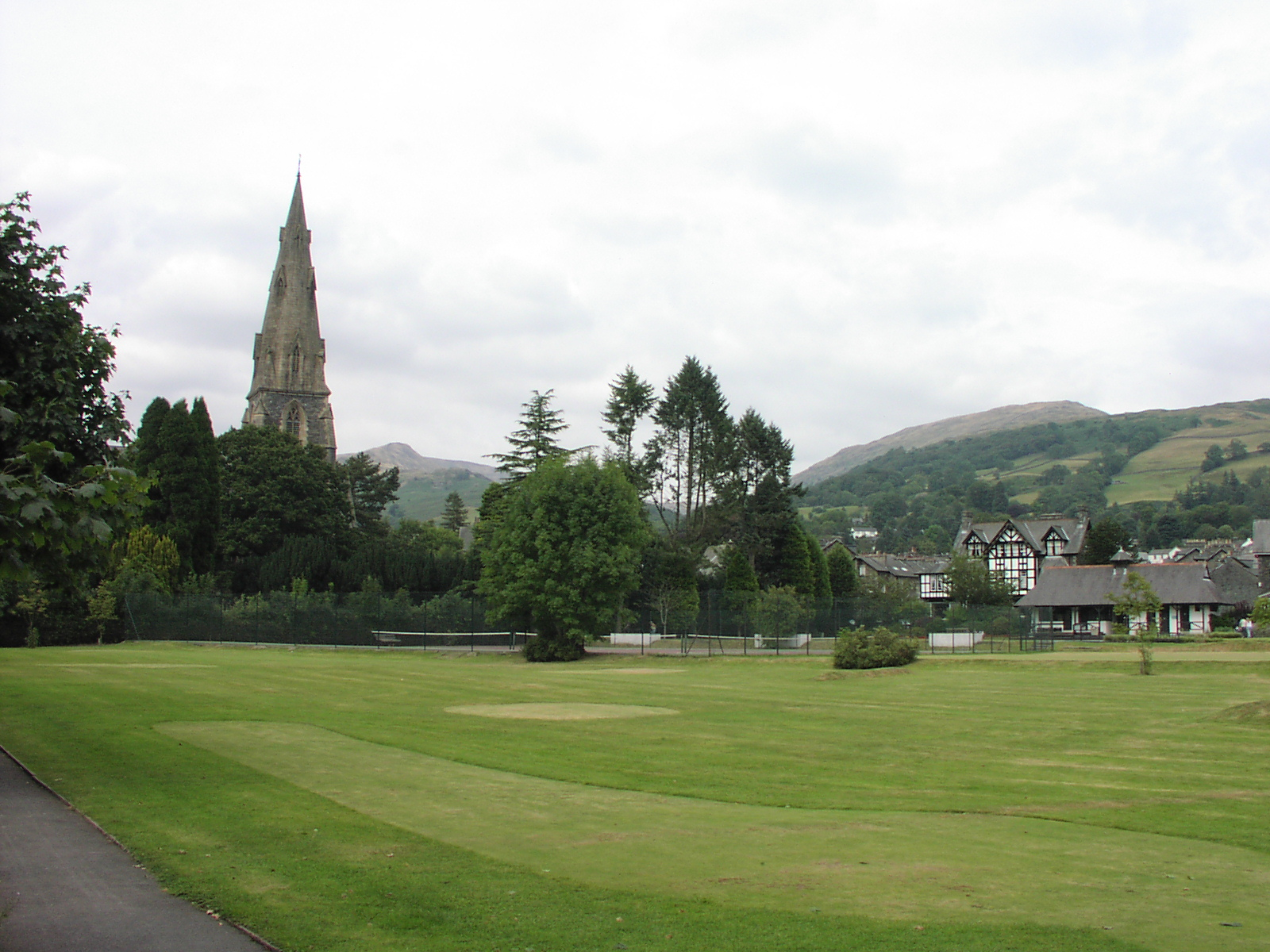 Ambleside park and church behind